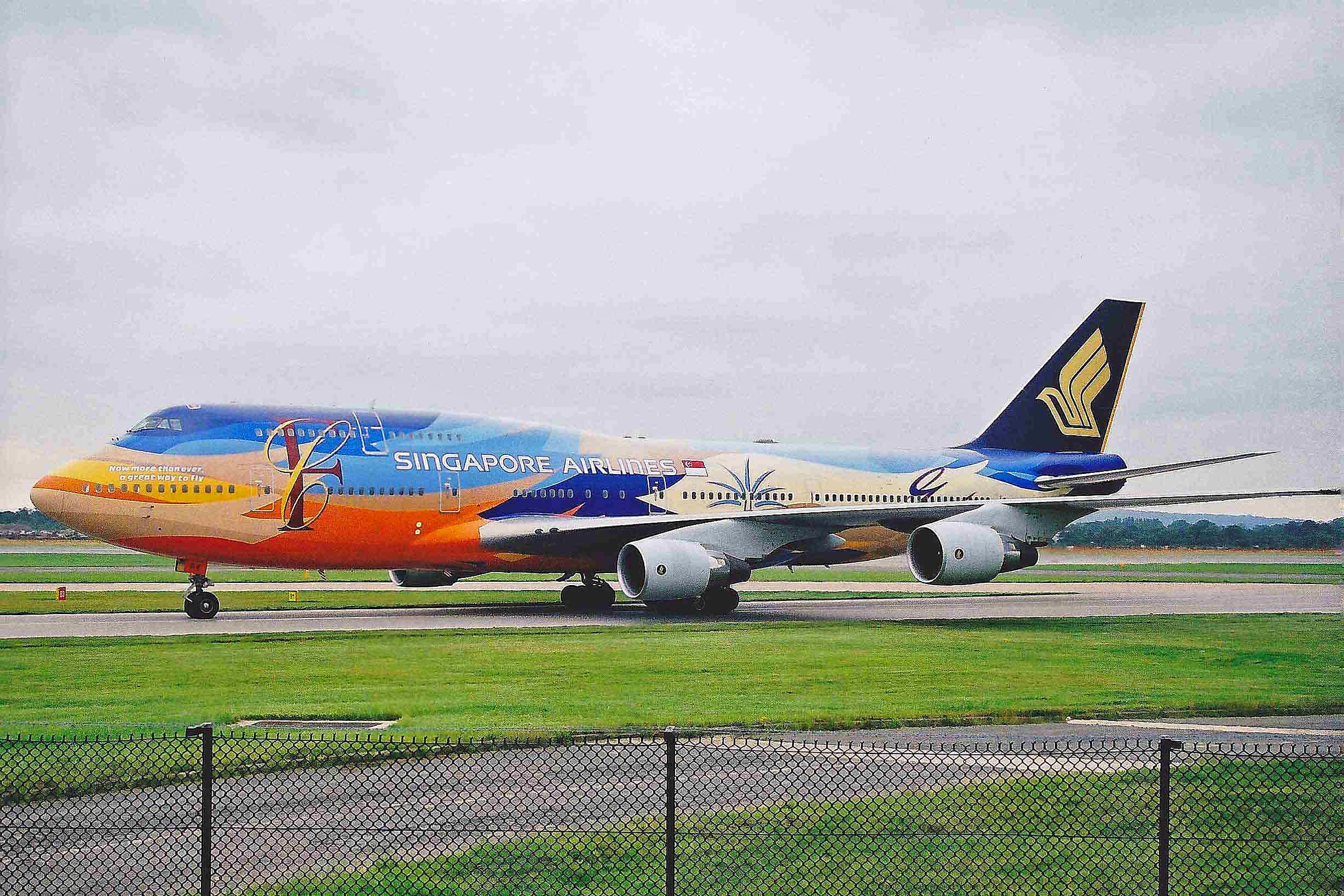 'Raffles' logojet. 9V-SPK was sadly lost at Taipei on 31-Oct-00 when it struck ground equipment during take-off on a closed runway. It's sister-ship with the 'Raffles' c/scheme, 9V-SPL, was very quickly repainted back into standard c/scheme.